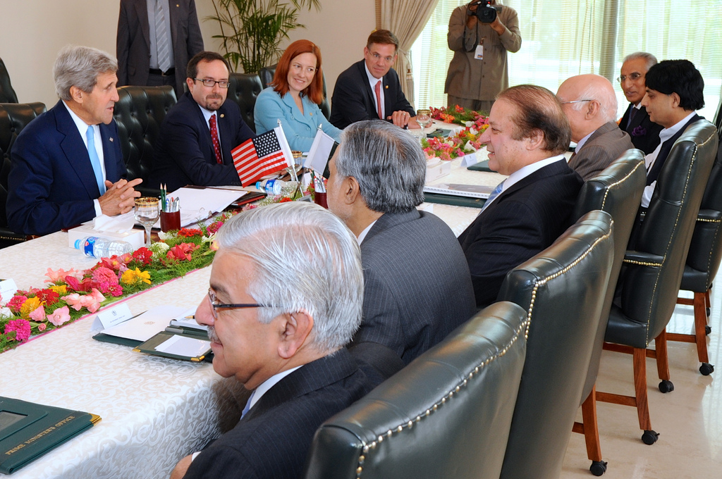 U.S Secretary of State John Kerry and Pakistani Prime Minister Nawaz Sharif chat before a meeting with their respective staffs in Islamabad, Pakistan, on August 1, 2013. [State Department photo/ Public Domain]